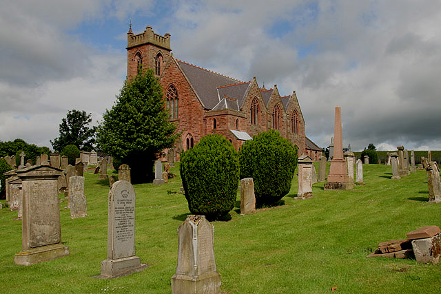 Earlston Parish Church A red sandstone Victorian (1892) church with a tower, located at the east end of Earlston. The churchyard contains a good variety of memorials, including 18th and 19th century table tombs and obelisks.